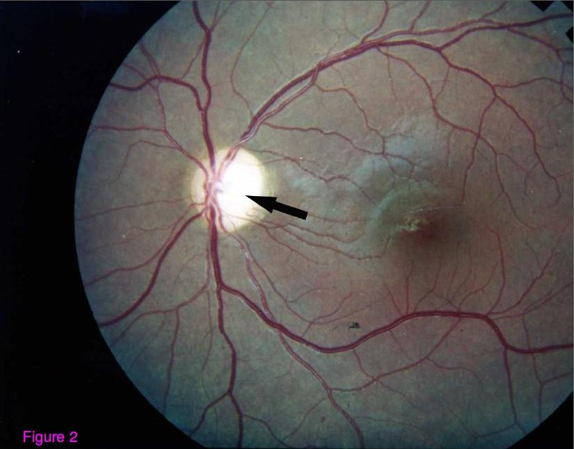 Photographic image of the patient left eye showing optic atrophy without diabetic retinopathy.